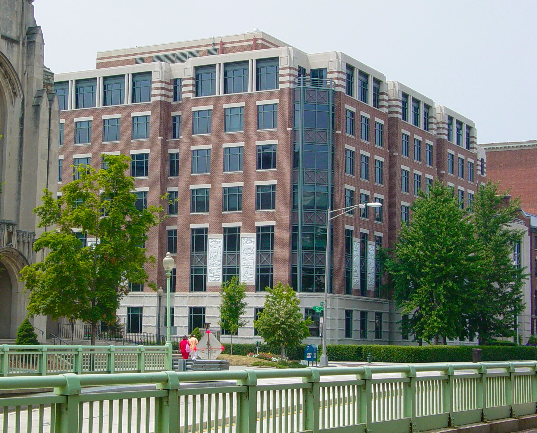 The Resources and Conservation Center, at 1400 16th Street NW in Washington, DC.